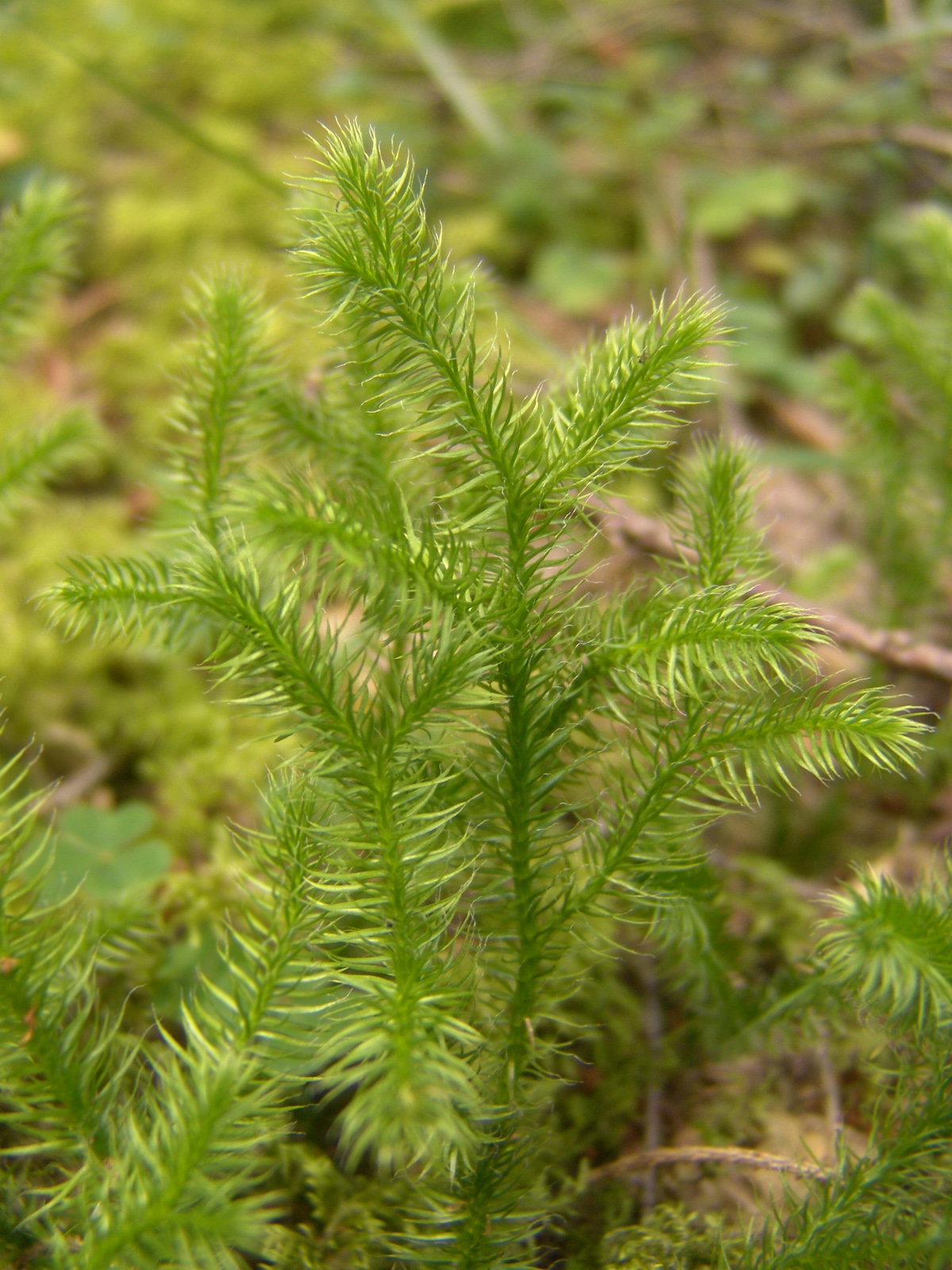 Stag's-horn Clubmoss (Lycopodium clavatum ssp. clavatum), vegetative shoot